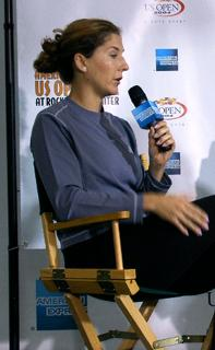 cropped version